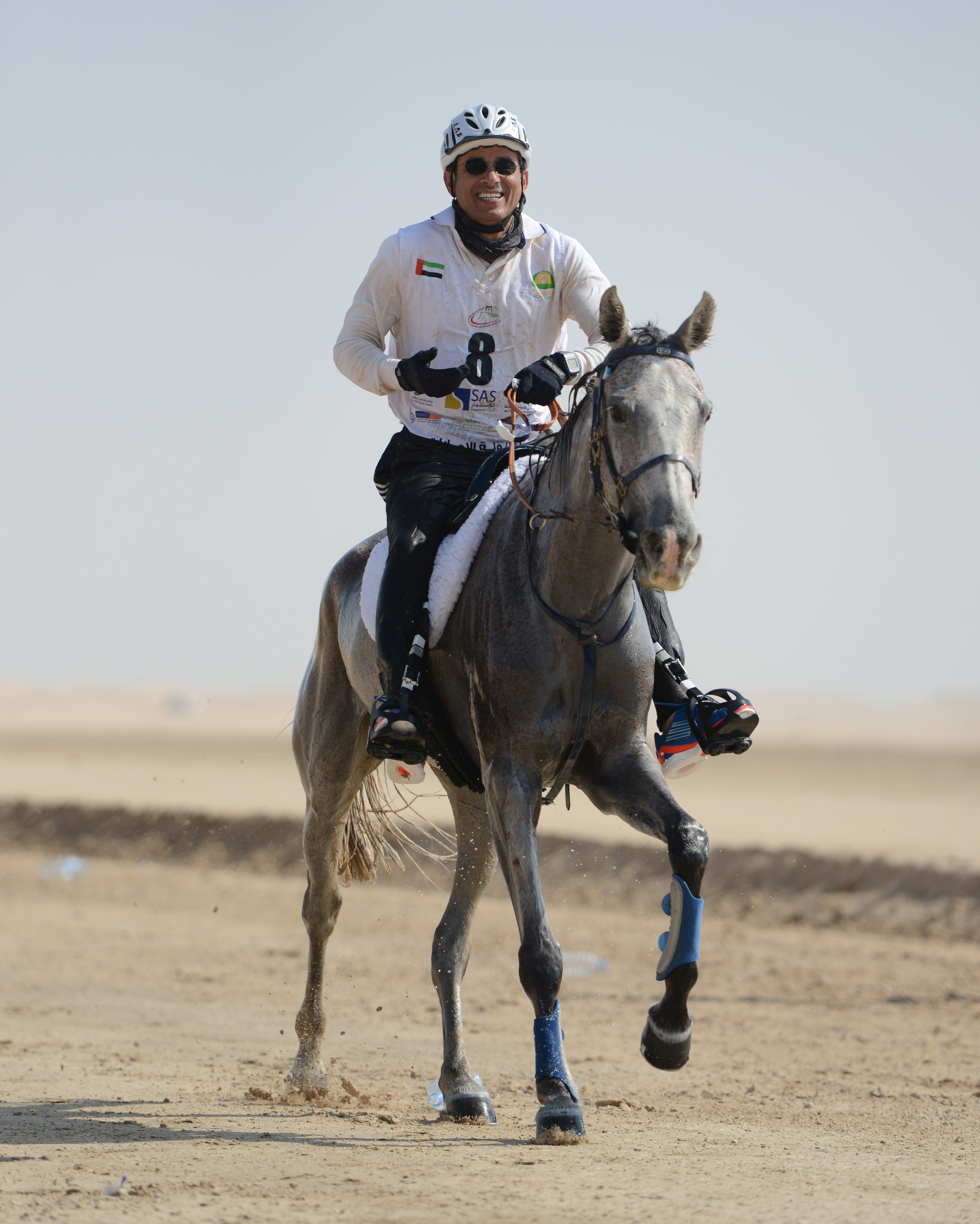 Mohamed Alabbar taking part in Emirates Challenge 5th Jan 2013, Wathba